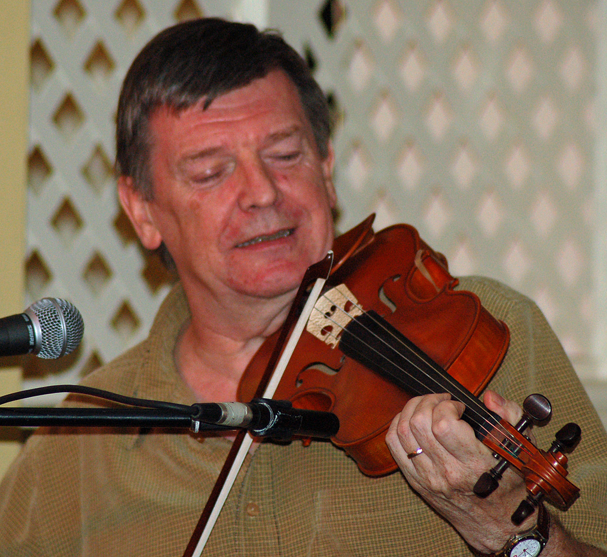 Kevin Burke played pretty near flawlessly all night.